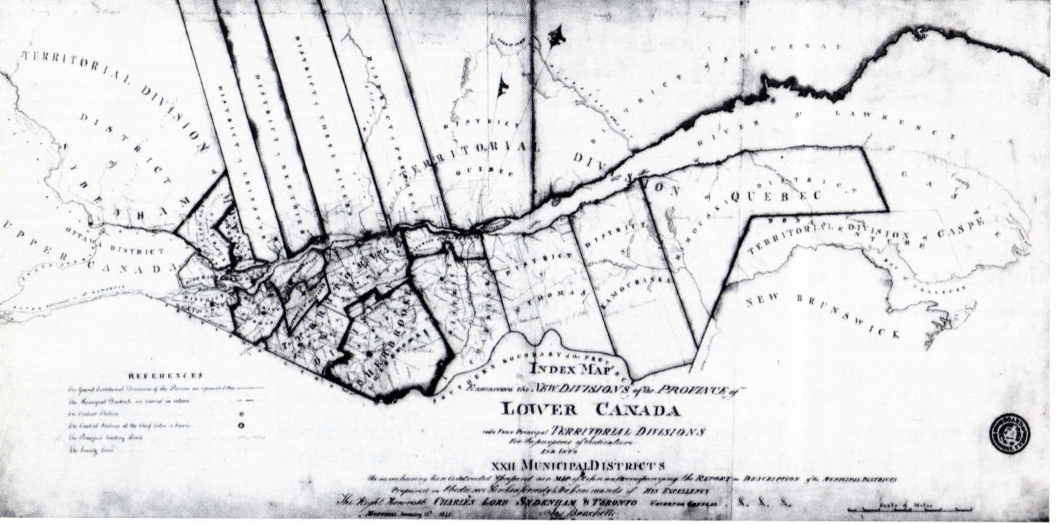 Divisions of Lower Canada into municipal districts, from a map by Joseph Bouchette, 1841. Reproduced in Saint-Pierre, Diane, L'Évolution municipale du Québec des régions - Un bilan historique, 1994